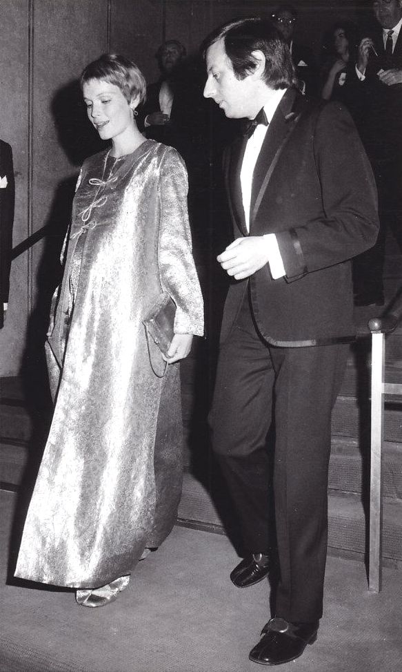 Mia Farrow and Andre Previn at Juilliard (1969)